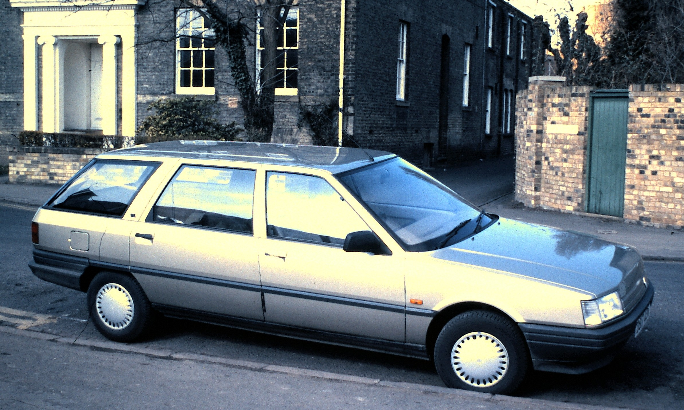 Renault 21 Station Wagon Cambridge